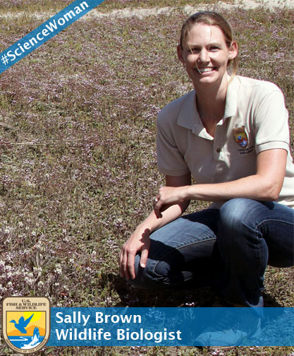 Sally Brown, Wildlife Biologist Credit: USFWS Sally Brown, Wildlife Biologist, Carlsbad Fish and Wildlife Office, Carlsbad, Calif. Who is your Female Conservation Hero or Mentor? Rachel Carson. Where did you go to school? University of Wyoming and University of California Riverside. What did you study? Botany. How did you get interested in conservation? When I was young my parents took me camping every summer in conserved lands all over the western United States and I grew to appreciate conservation while enjoying these beautiful and diverse landscapes. What’s your favorite species and why? Salt Marsh bird’s-beak (Chloropyron maritimum subsp. maritimum) is a plant that grows in coastal salt marshes in southern and central California and is a hemiparasite that derives some of its physiological needs from a host plant. It has flowers that look like the beaks of baby birds.